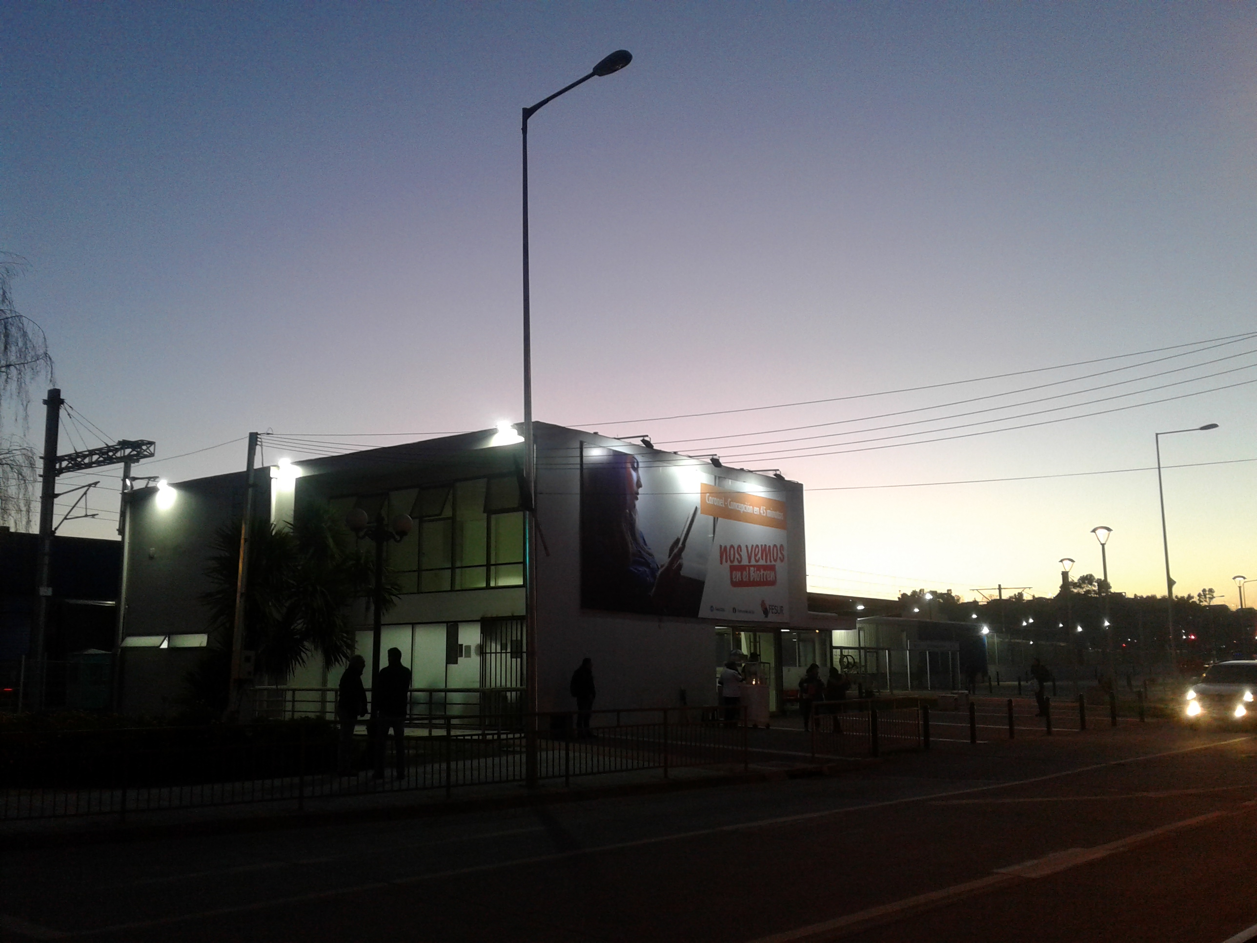 Biovias-Transfering Station Coronel (Biotren and Biobus to Lota)